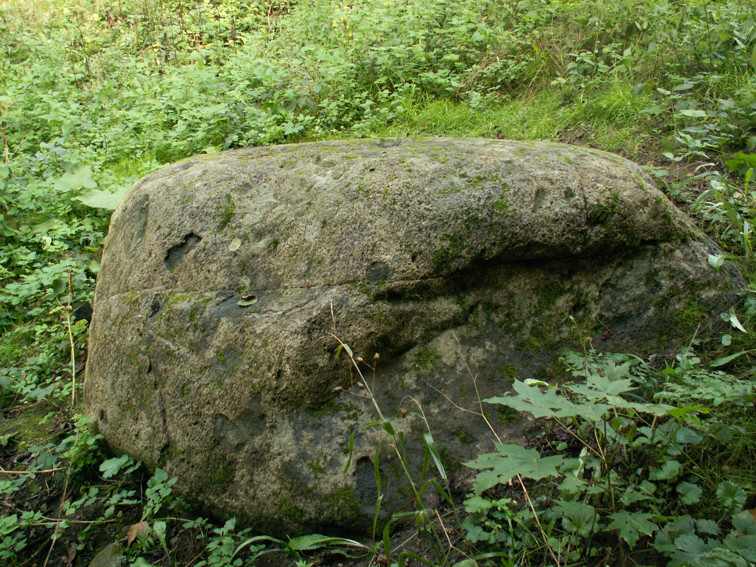 Kartena stone, Kretinga district, Lithuania